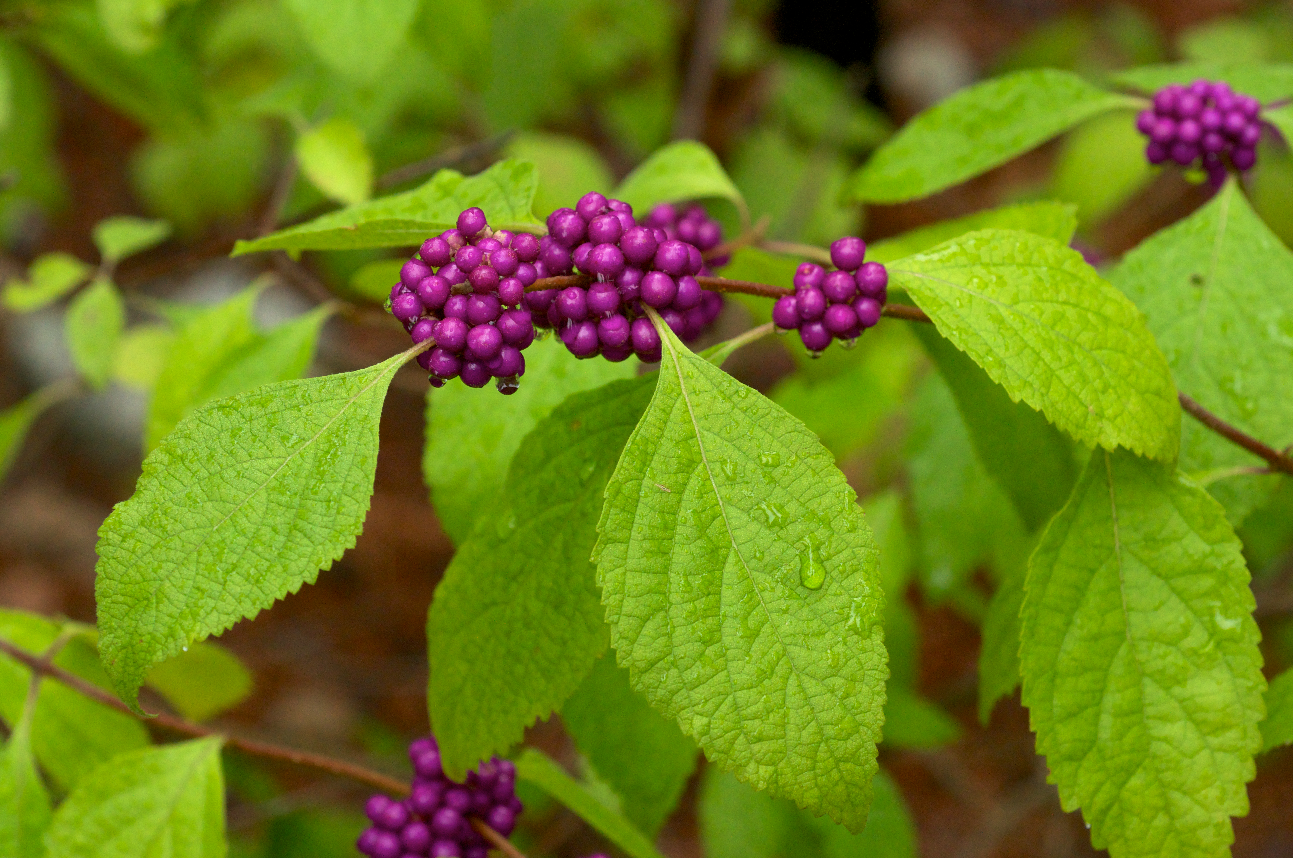 Species from Southeastern North America Common name: American Beautyberry Photographed along the East Summit Trail, Pinnacle Mountain State Park, Pulaski County, Arkansas